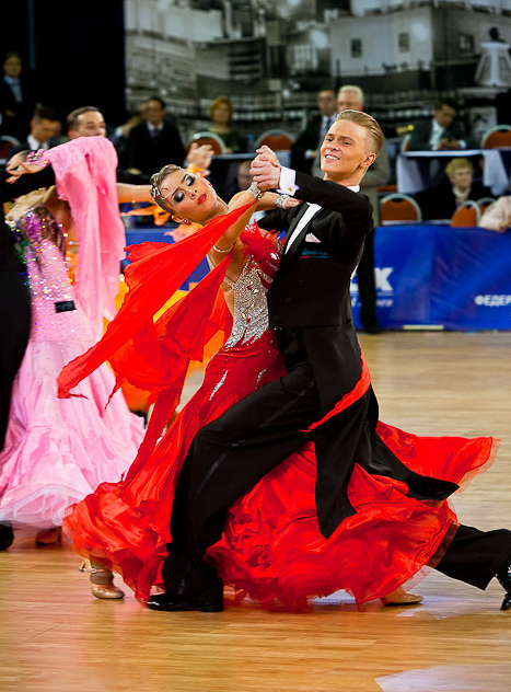 Ballroom dance